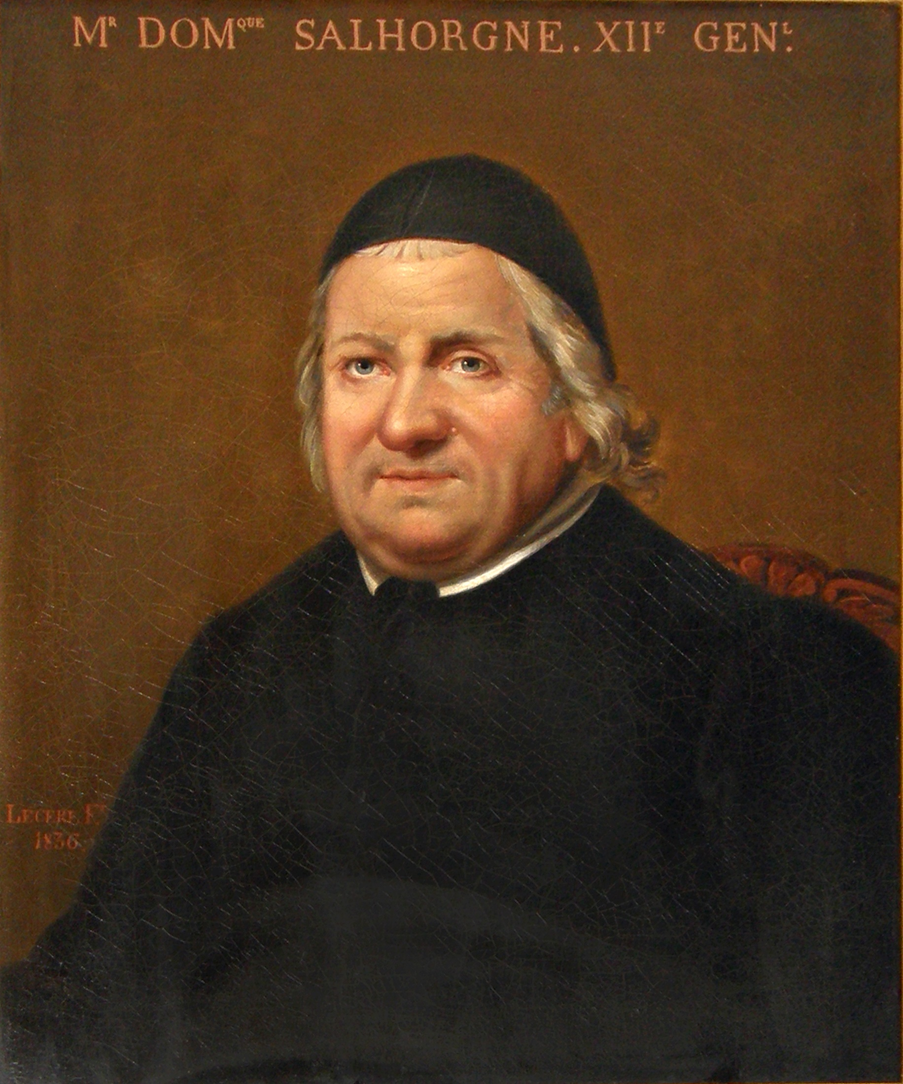 Dominique Salhorgne (1757-1836), Generaloberer der Lazaristen